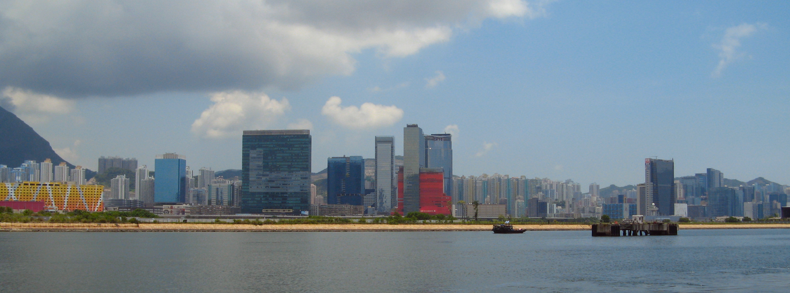 Ngau Tau Kok, seen from Kowloon City Ferry Pier